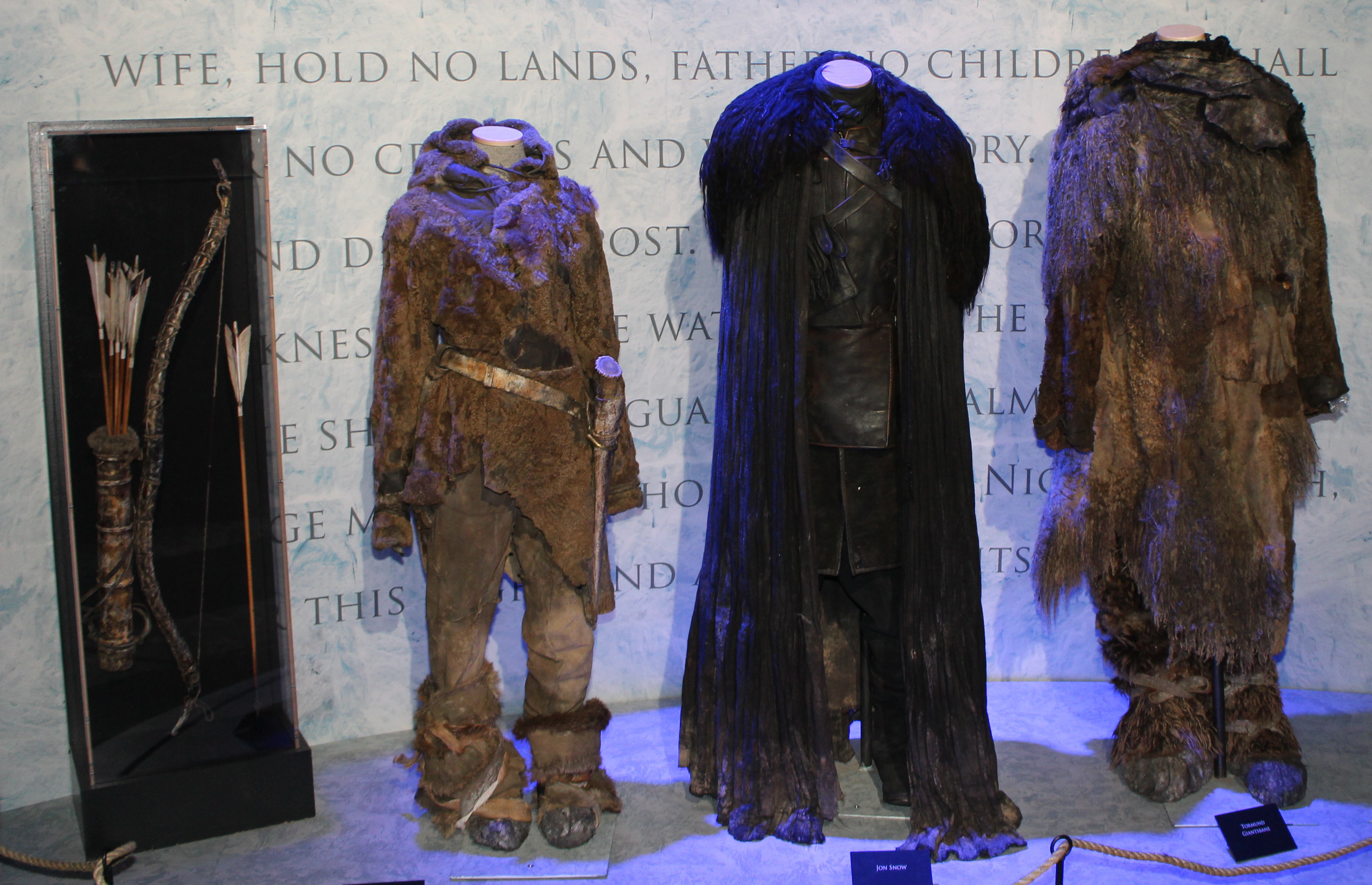 Costumes worn by the characters Ygritte, Jon Snow and Tormund Giantsbane in the TV series Game of Thrones, exhibited by HBO in Oslo in 2014.